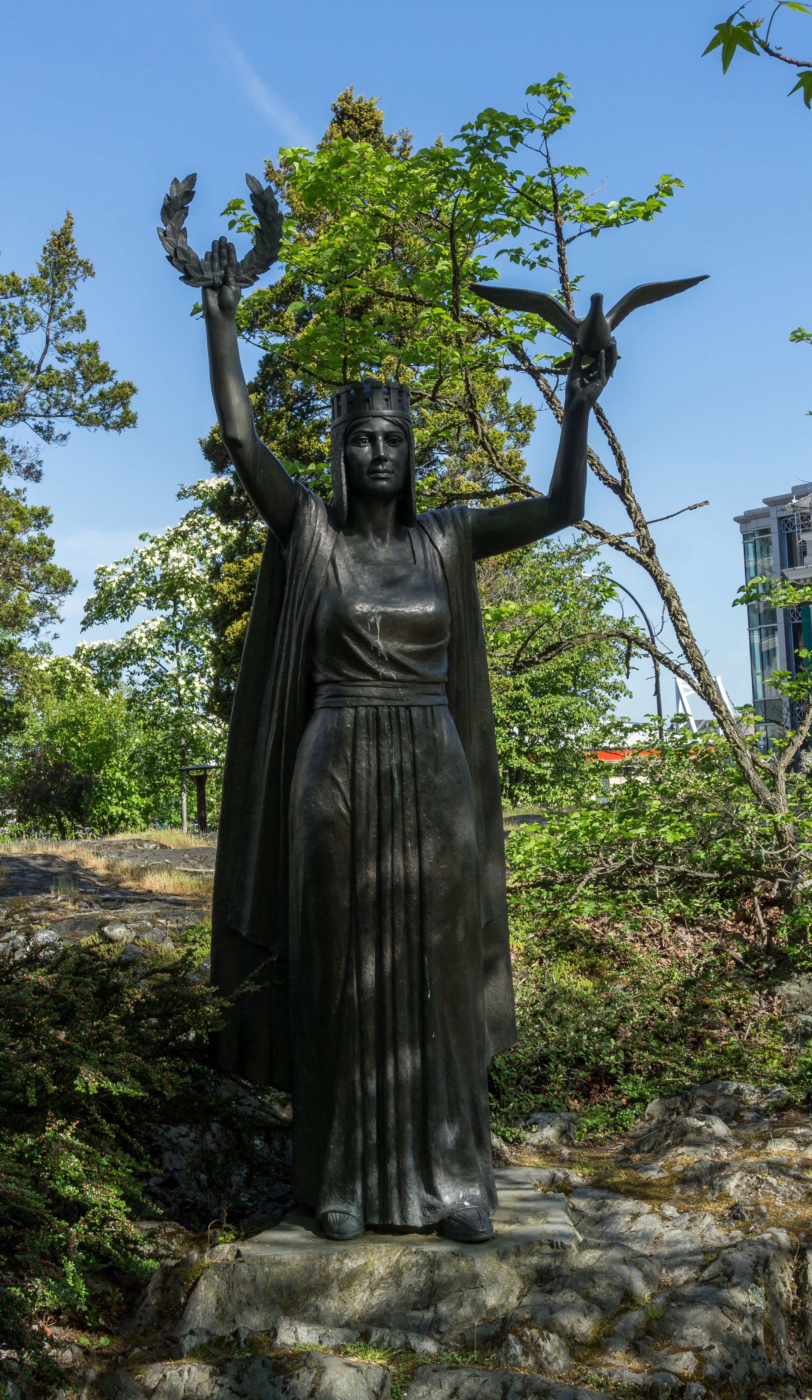 Statue at Confederation Garden Court, Victoria, British Columbia, Canada